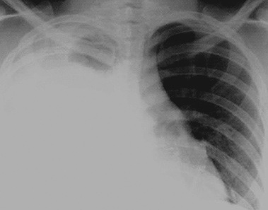 Hydrothorax